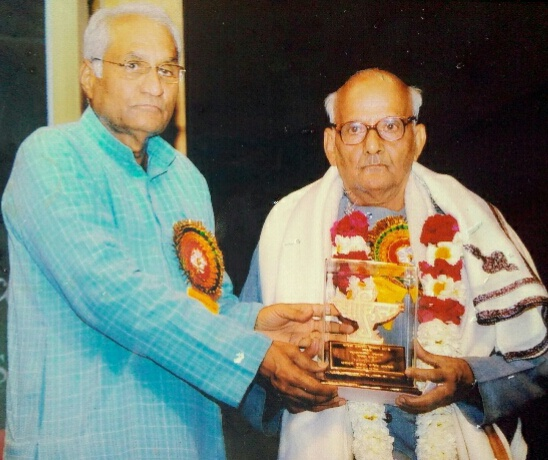 Dr Ramji Thakur receiving Sahitya Akademi award